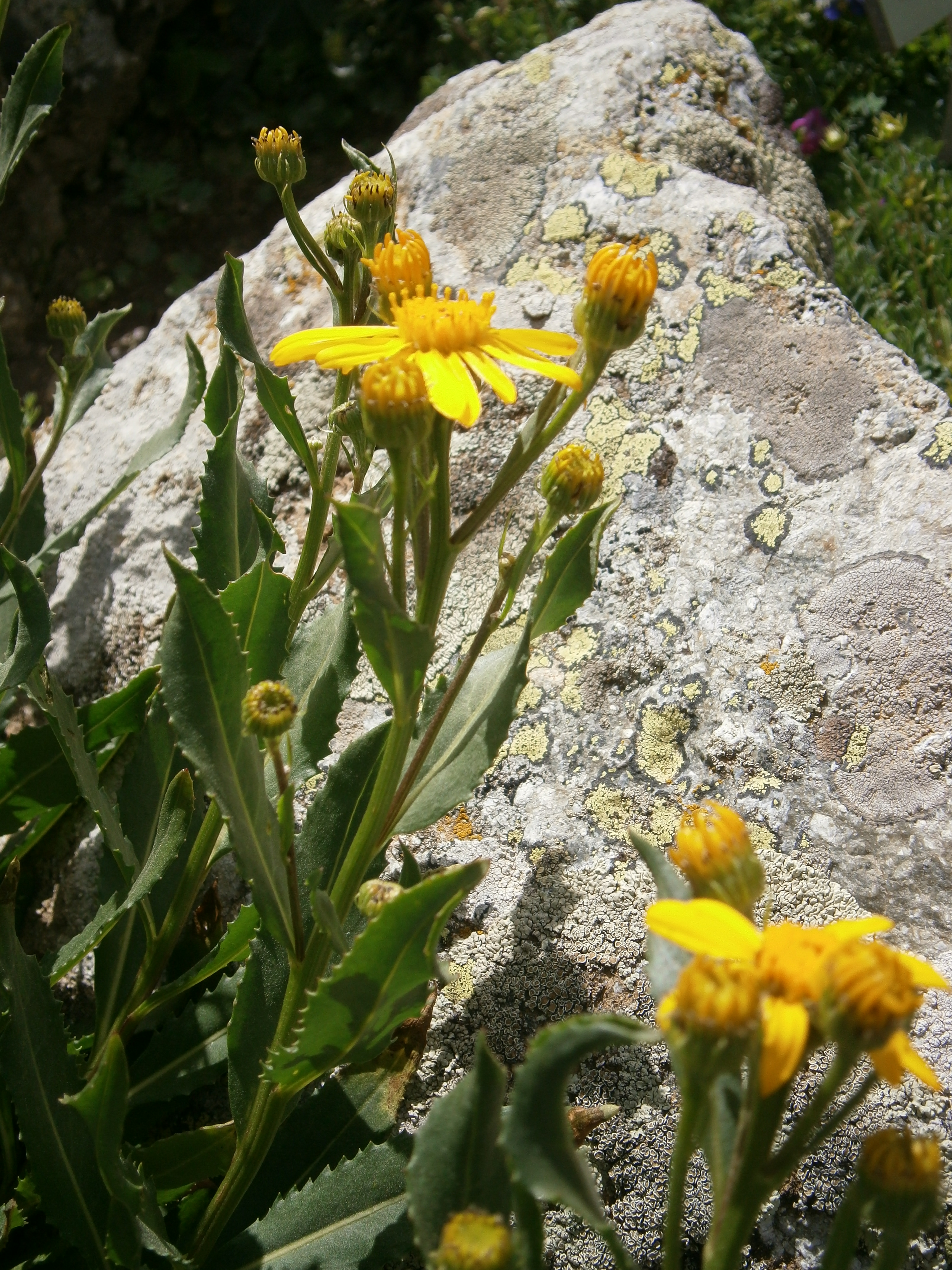 Senecio pyrenaicus in the Jardin Botanique Alpin du Lautaret